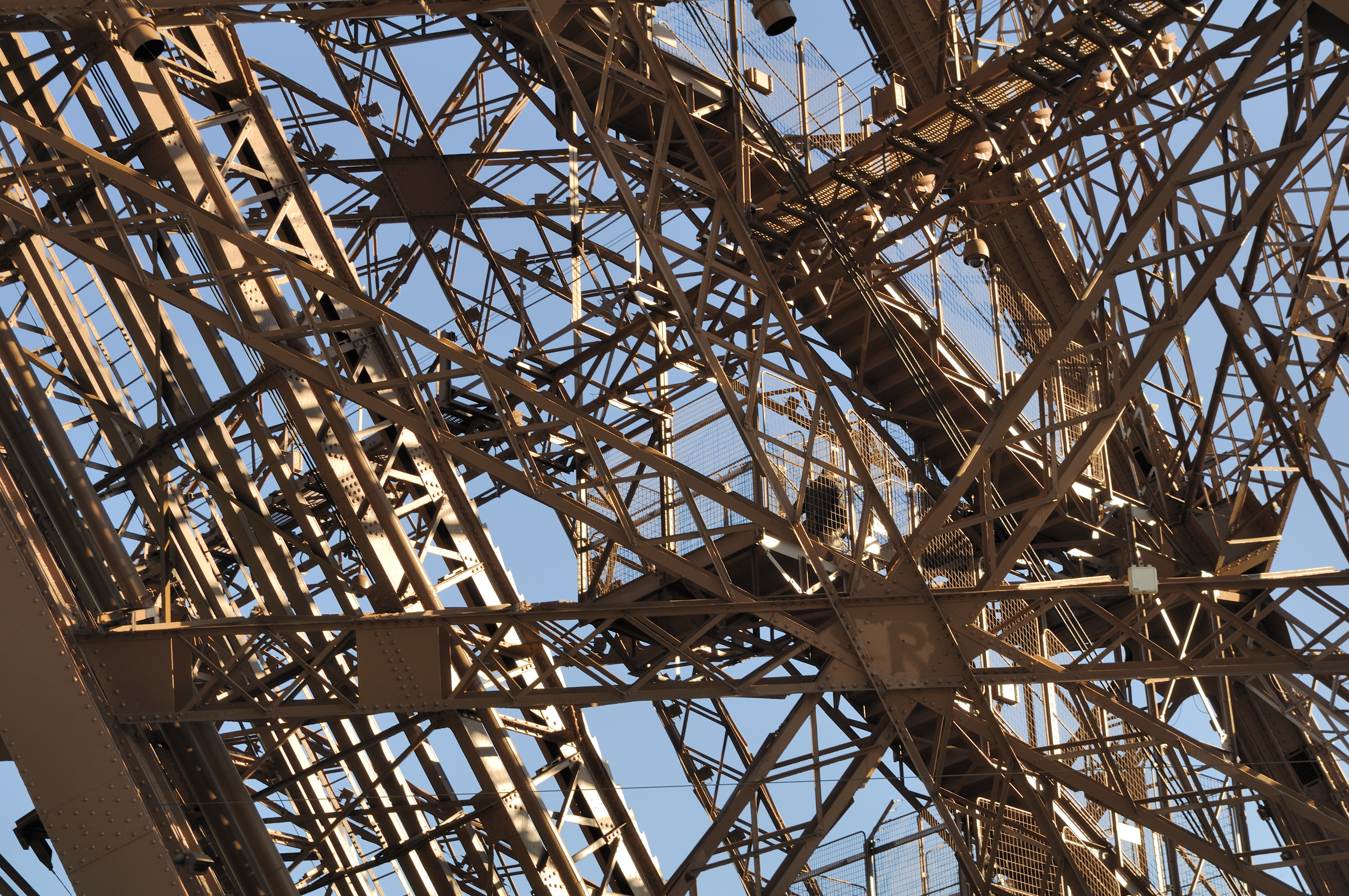 Paris: detail of Eiffel Tower